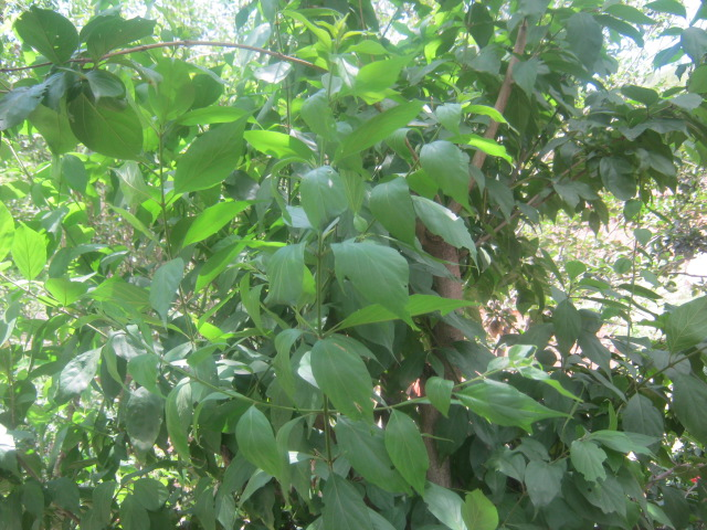 Premna latifolia leaves